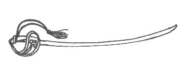 This image was uploaded in the JPEG format even though it consists of non-photographic data. This information could be stored more efficiently or accurately in the PNG format or SVG format. If possible, please upload a PNG or SVG version of this image without compression artifacts, derived from a non-JPEG source (or with existing artifacts removed). After doing so, please tag the JPEG version with Superseded|NewImage.ext , and remove this tag. This tag should not be applied to photographs or scans. For more information, see